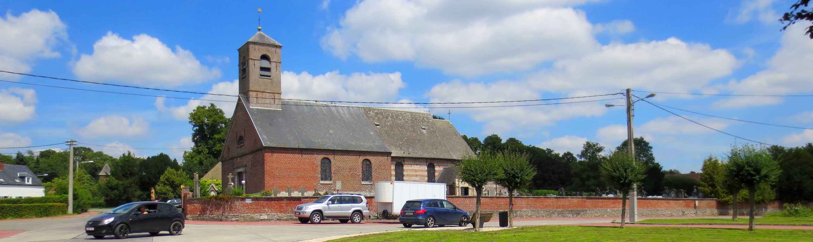 Depicted place: Q57006470